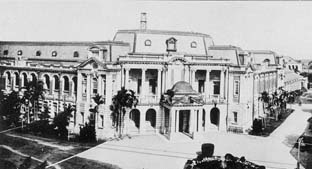 Government Building of Taichung Prefecture(It's Taichung City Hall nowadays)/ Original Photographer Unknonw/ prior to 1932